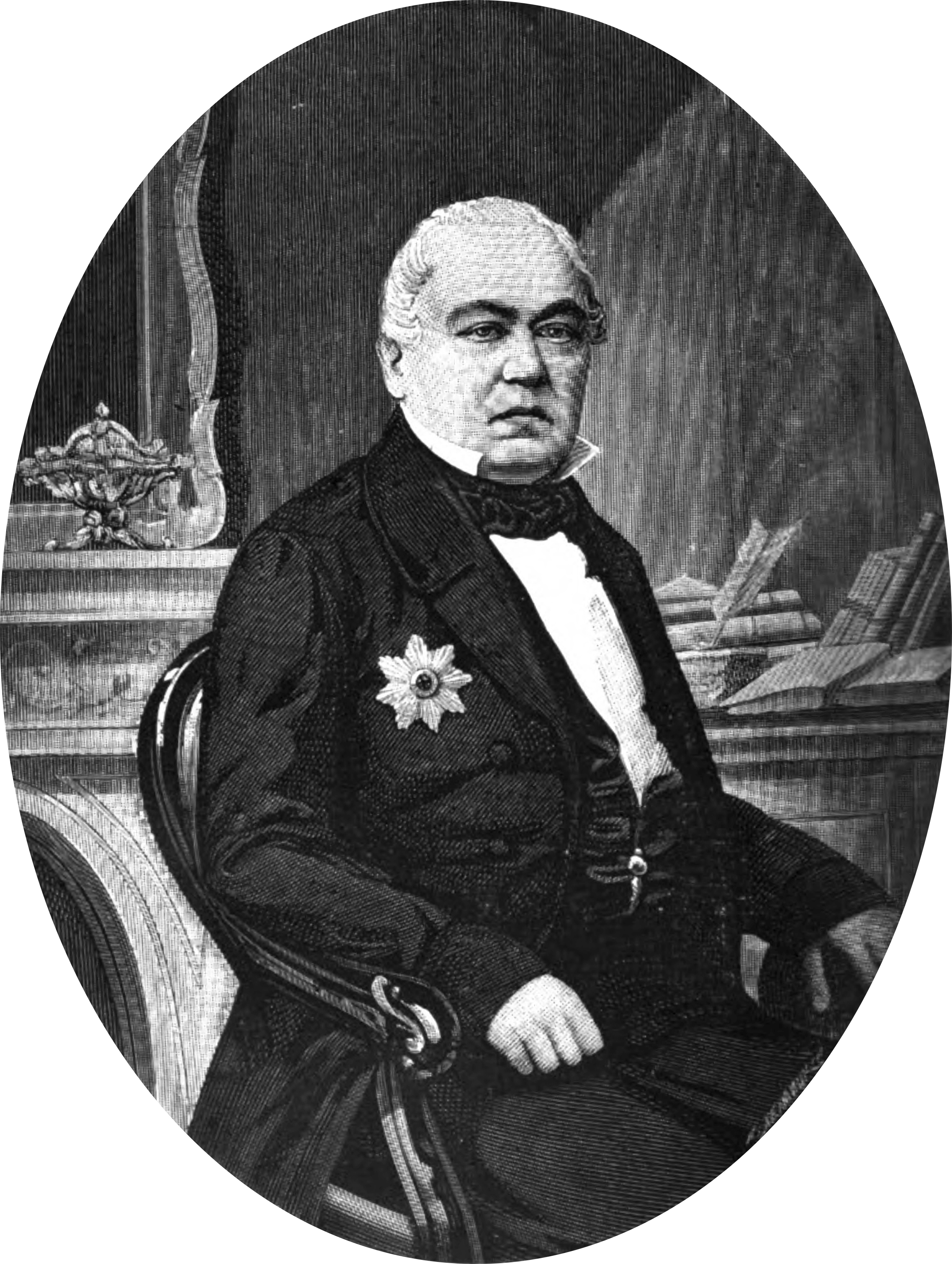 Alexandr Dmitrievich Borovkov (Russkaya starina, Vol 95. № 7-9, p. 496)